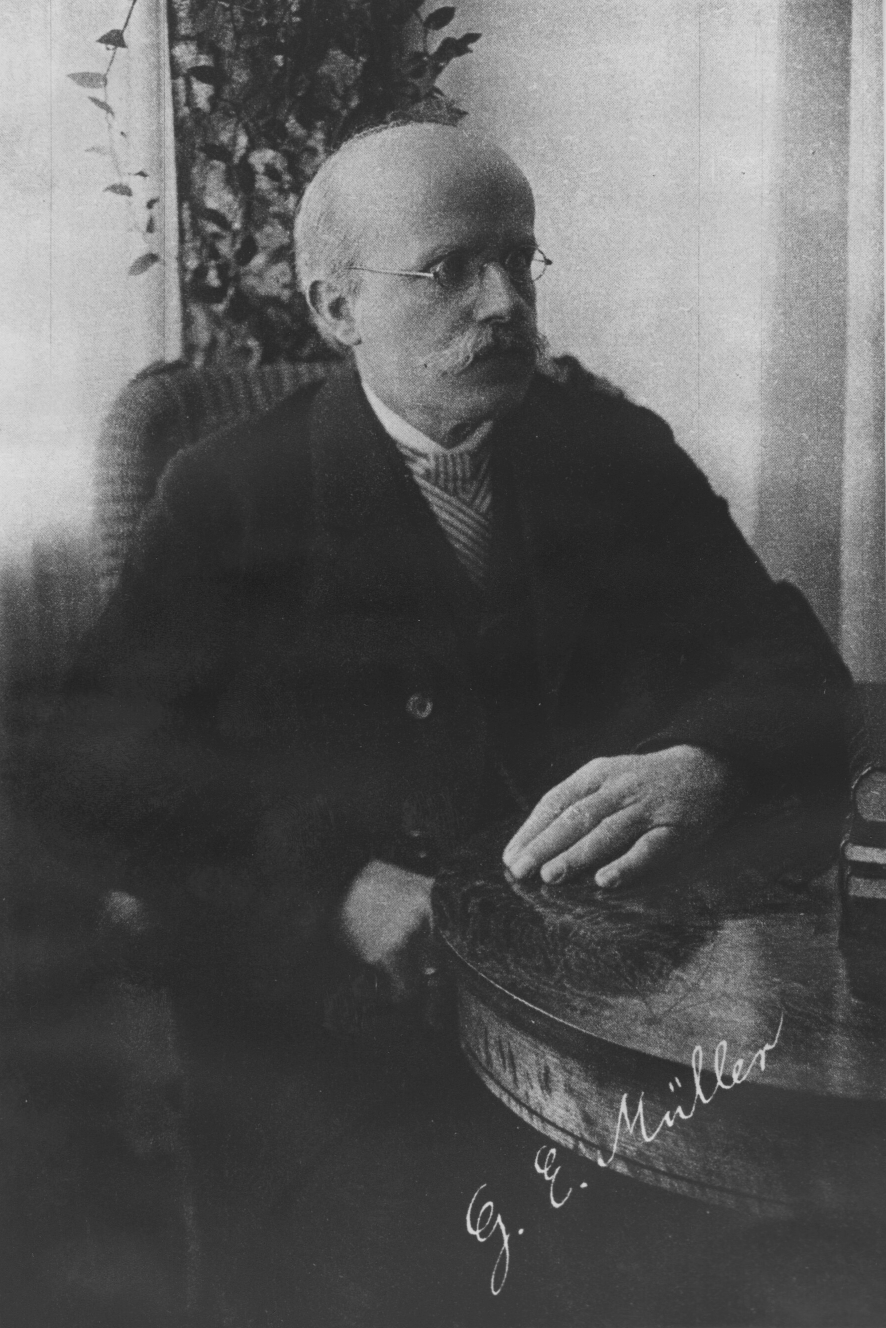 Photo George Elias Muller